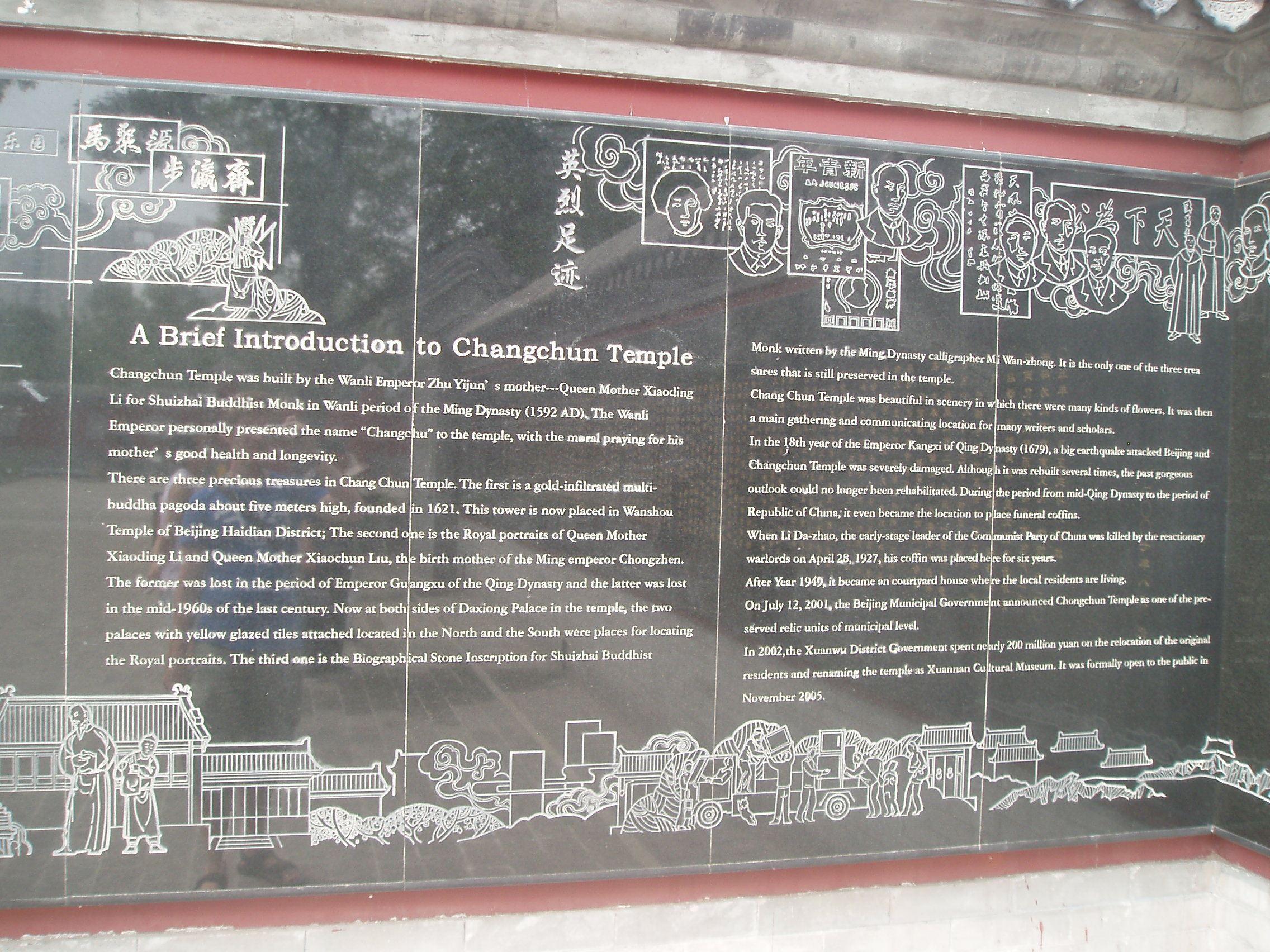 Plaque at the Changchun temple.